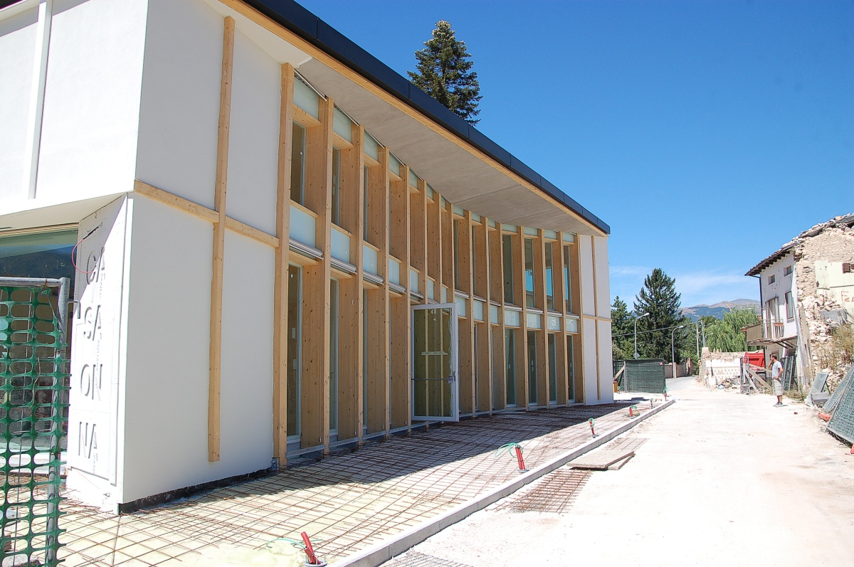 Onna (L’Aquila) 2010